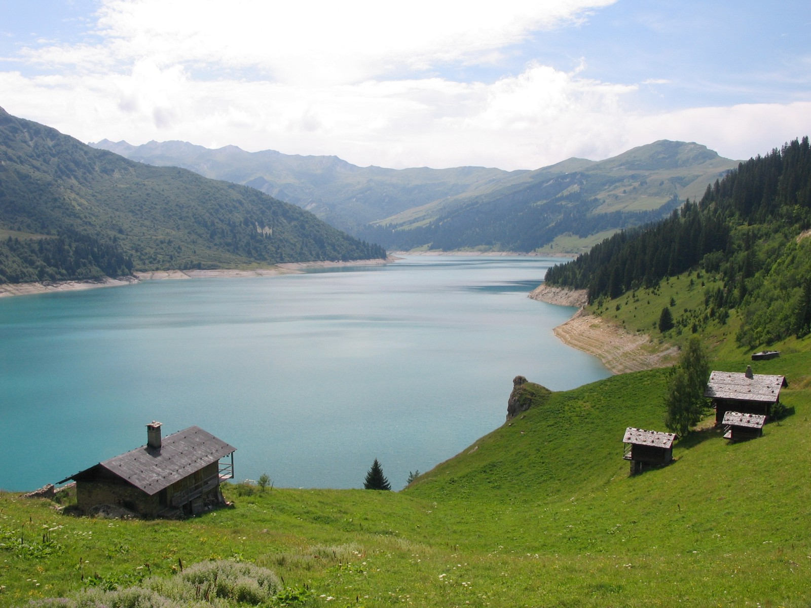 Sight of the lac de Roselend lake, in Savoie, France.